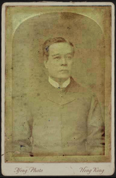 Januario Carvalho was a prominent member of the Portugese community in Hong Kong, and in 1878 was the first member of his community to be nominated as a member of the Legislative Council in Hong Kong.